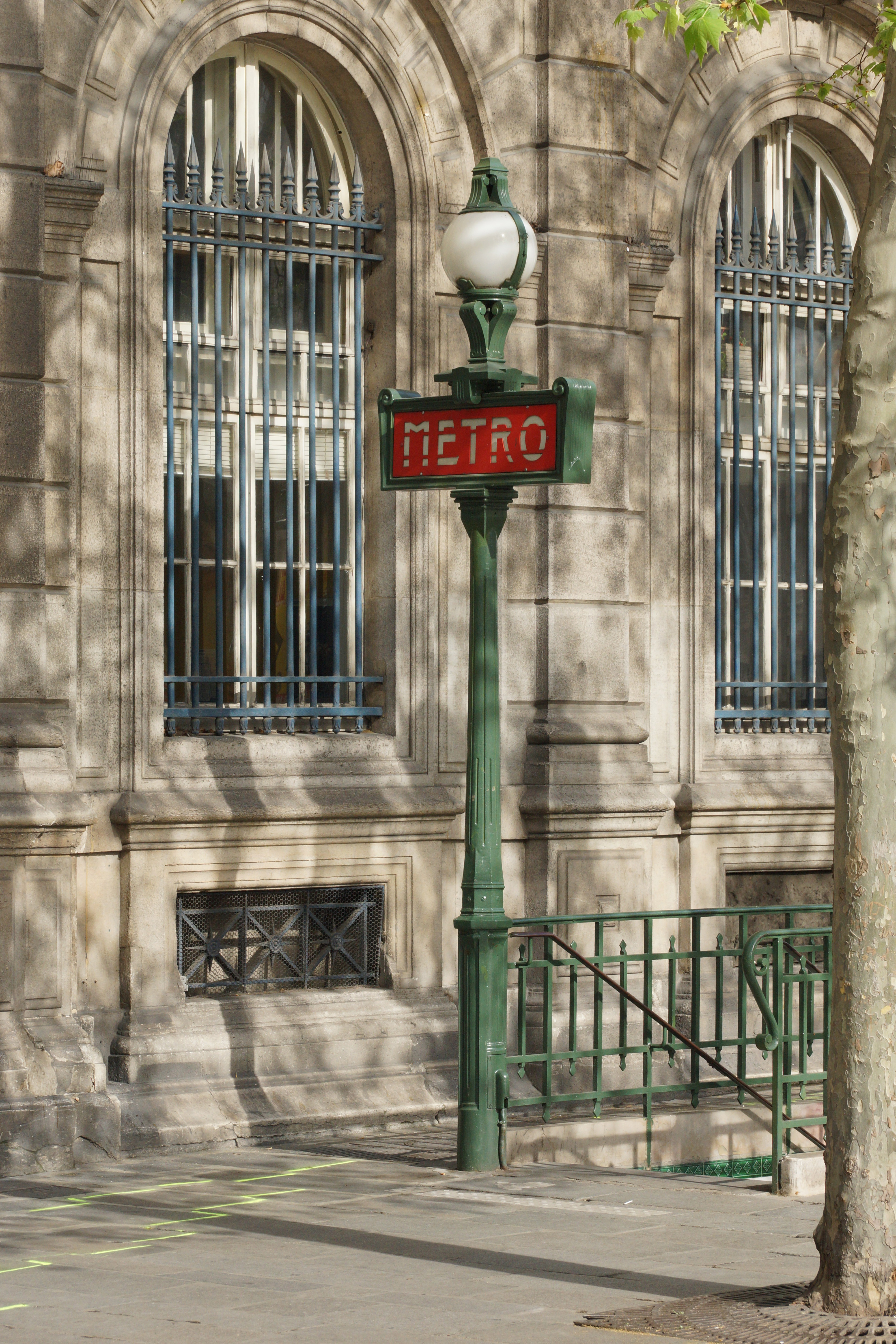 Candelabra of the Hôtel de Ville metro station, Paris, France.